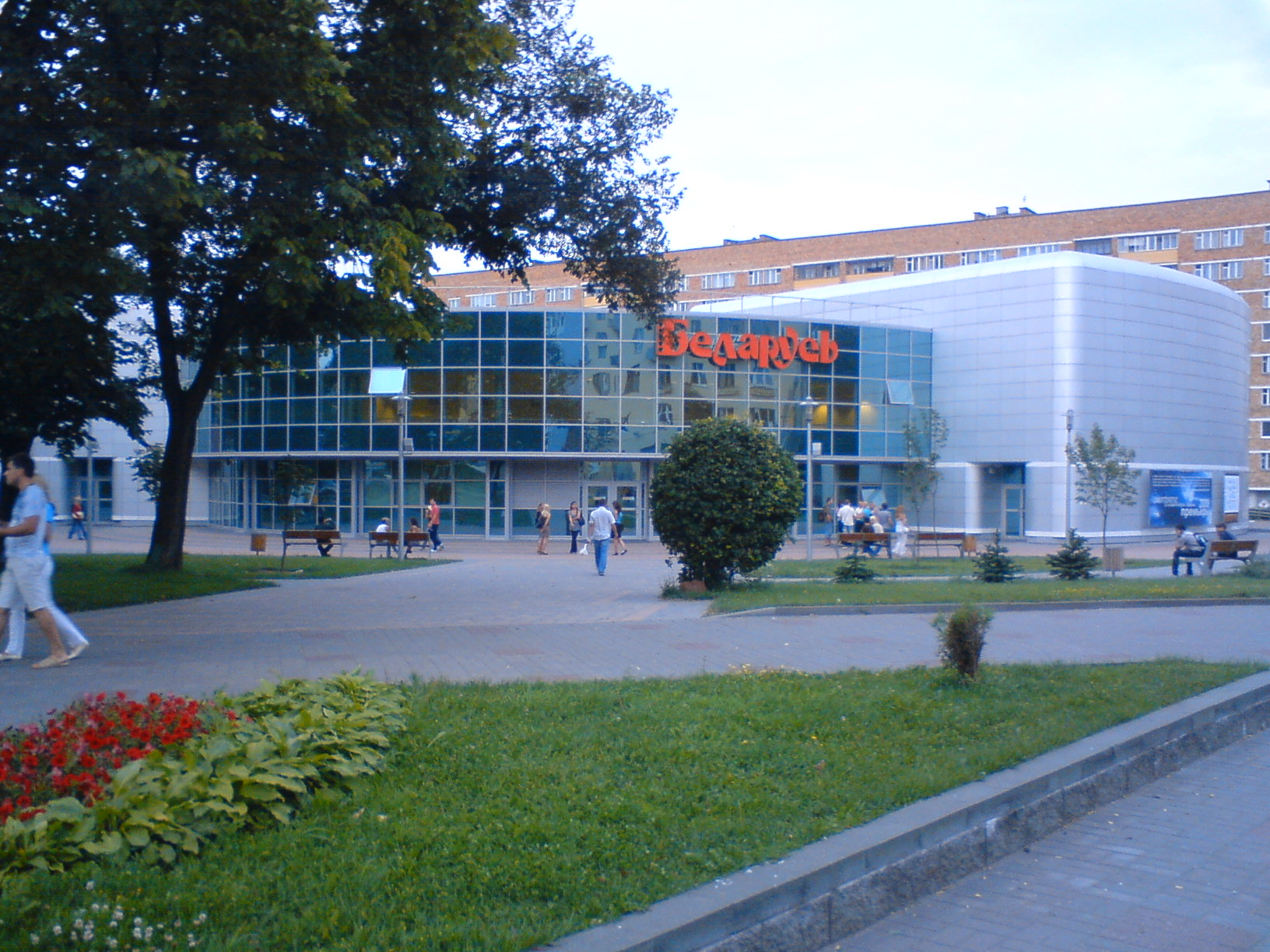 Multiplex Belarus